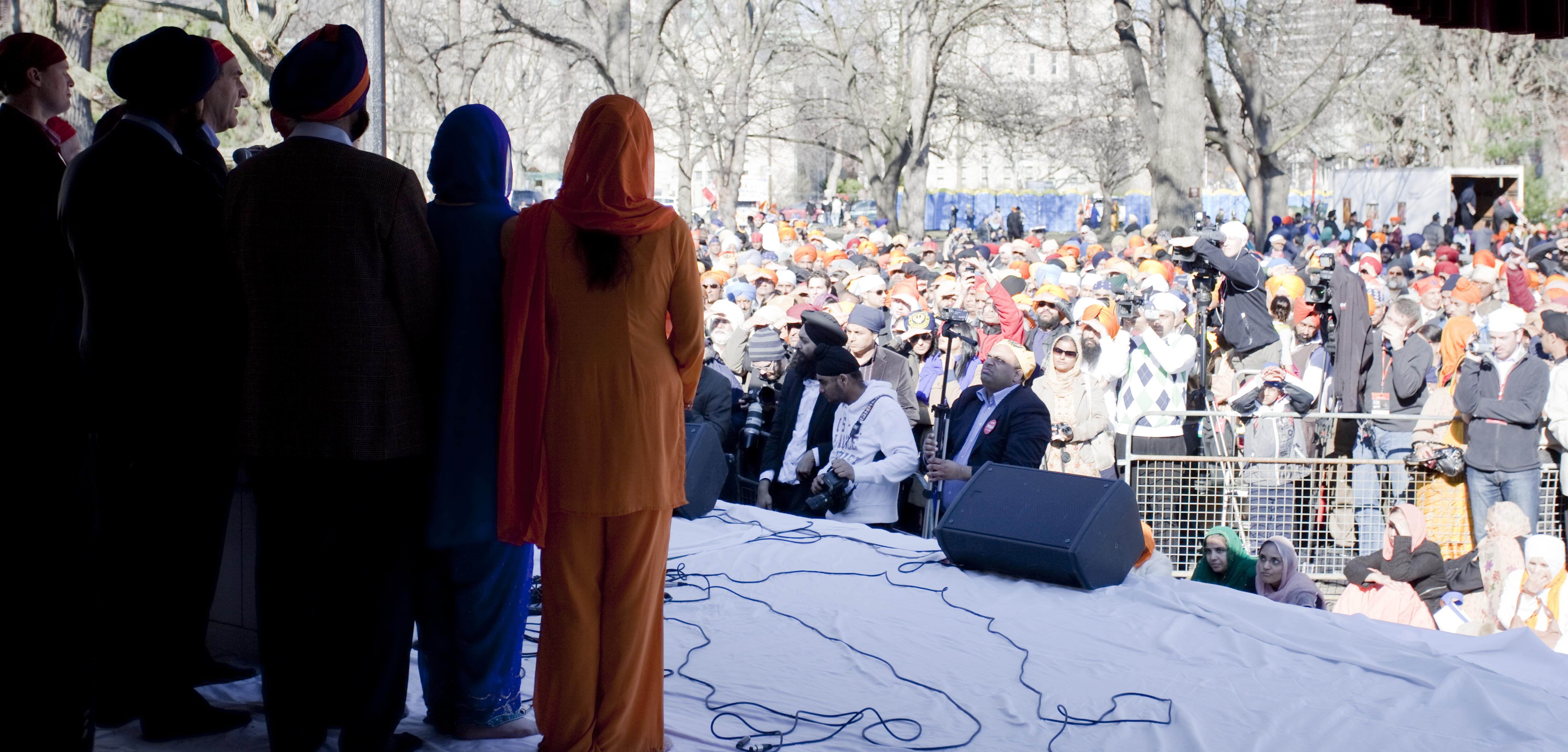 Khalsa celebration in Toronto, Ontario, Canada.